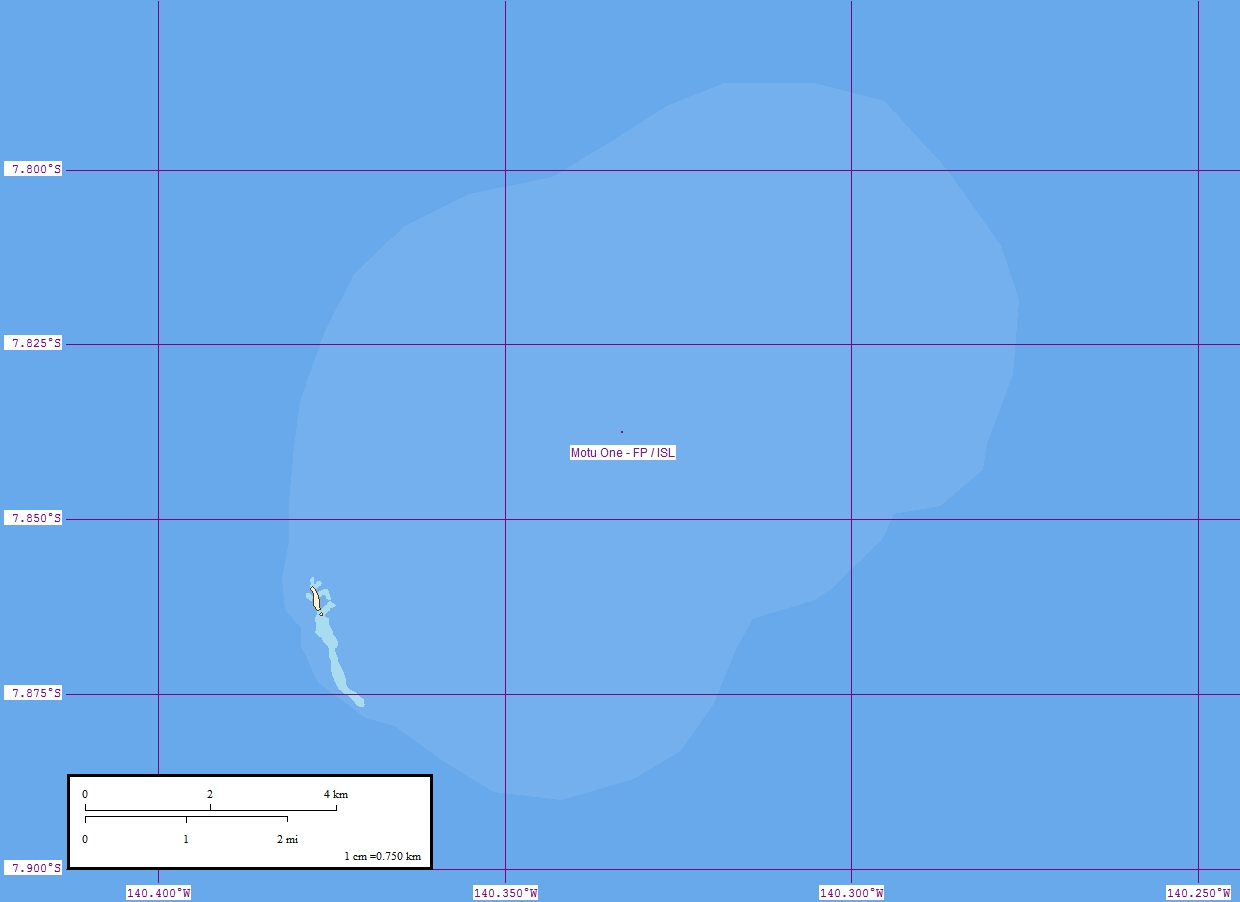 Map of Motu One Atoll, Marquesas Islands, French Polynesia